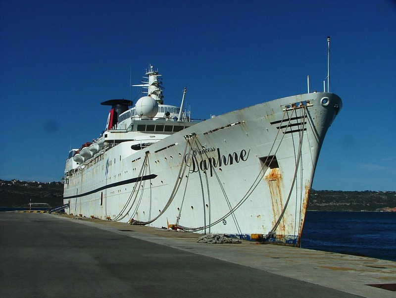 The cruise ship Princess Daphné detained at Souda in 2014.